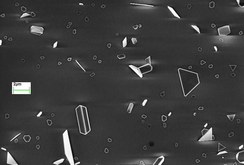 Scanning electron microscope image of small single-crystals of Bismuth Telluride